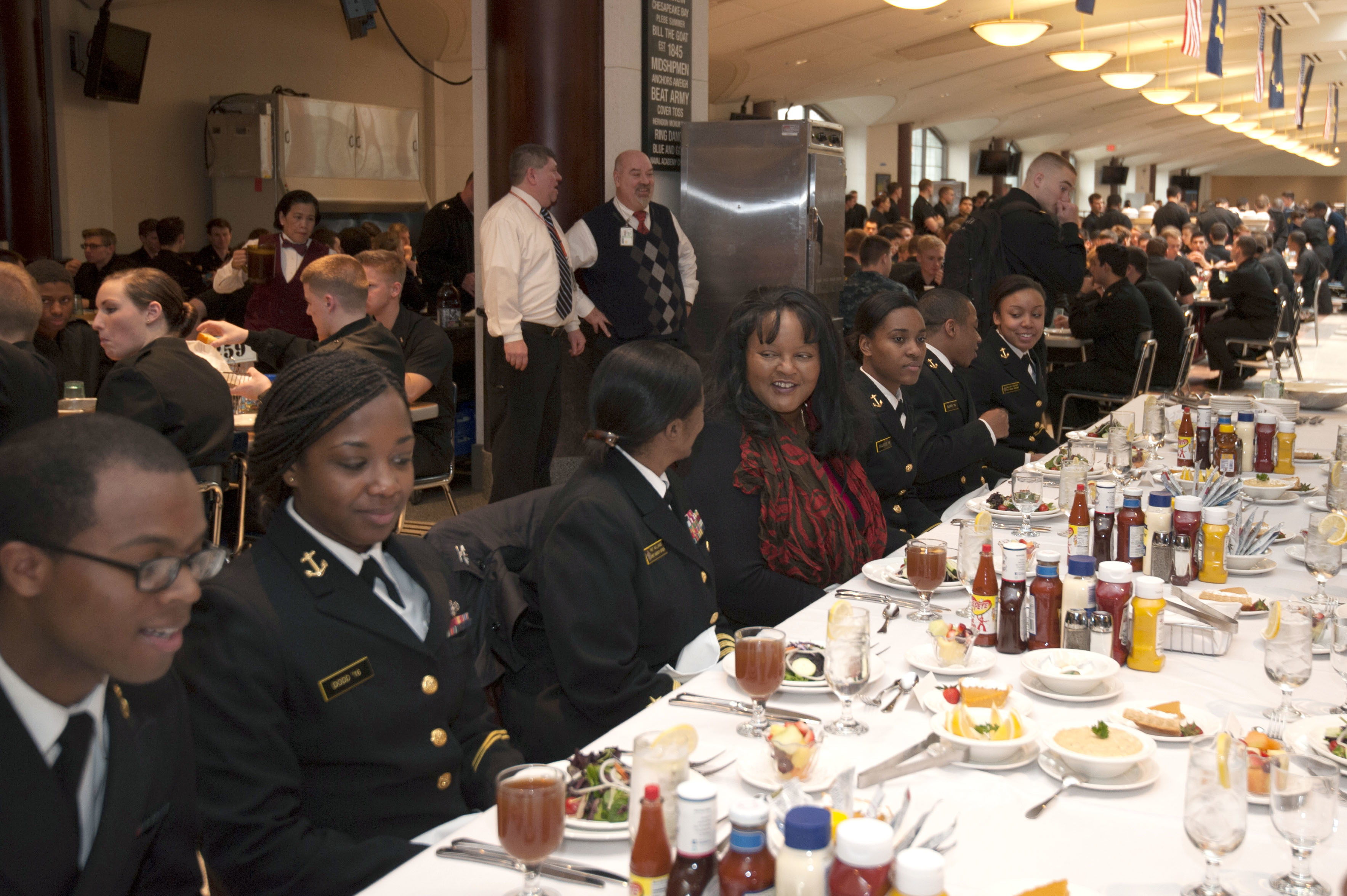 Janie L. Mines, the first black female to graduate from the U.S. Naval Academy, attends lunch with the brigade of Midshipmen in King Hall in honor of Black History Month. Mines was part of the first females to enter the Naval Academy in 1976 and was the first and only black female in her class.